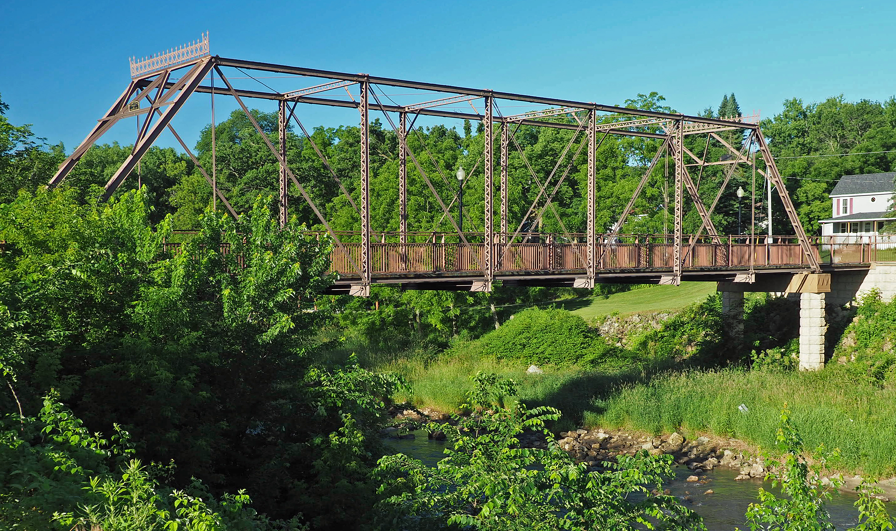 Walnut Street Bridge, Mazeppa, Minnesota, USA. Viewed from the northeast.